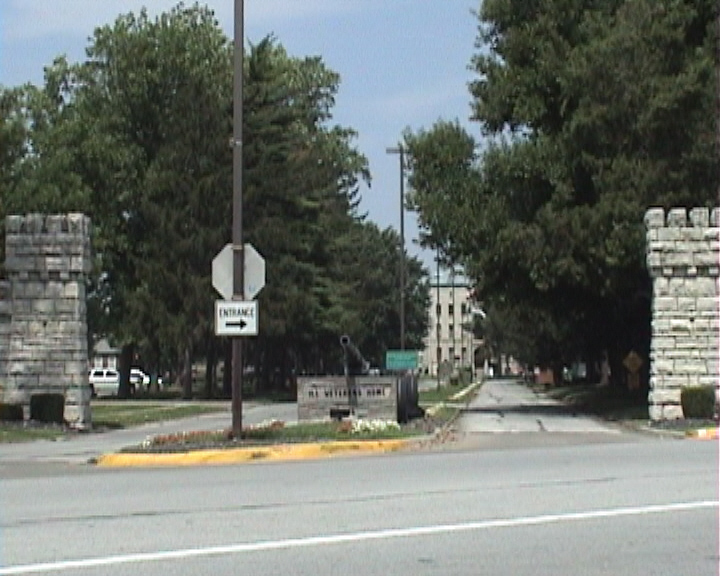 The 12th street entrance for the Illinois Veterans Home found in North Quincy, Illinois.